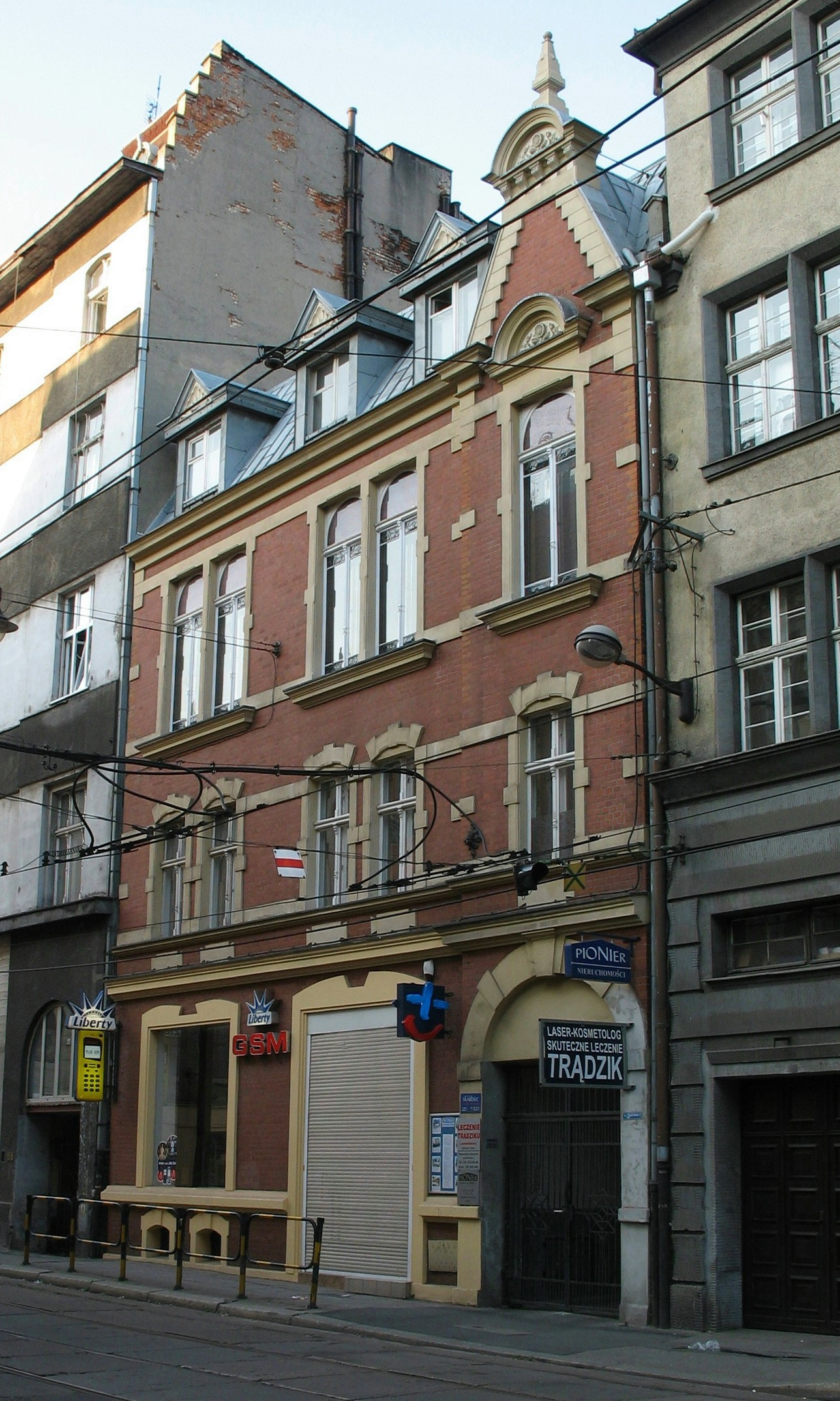 Synagogue in Gliwice